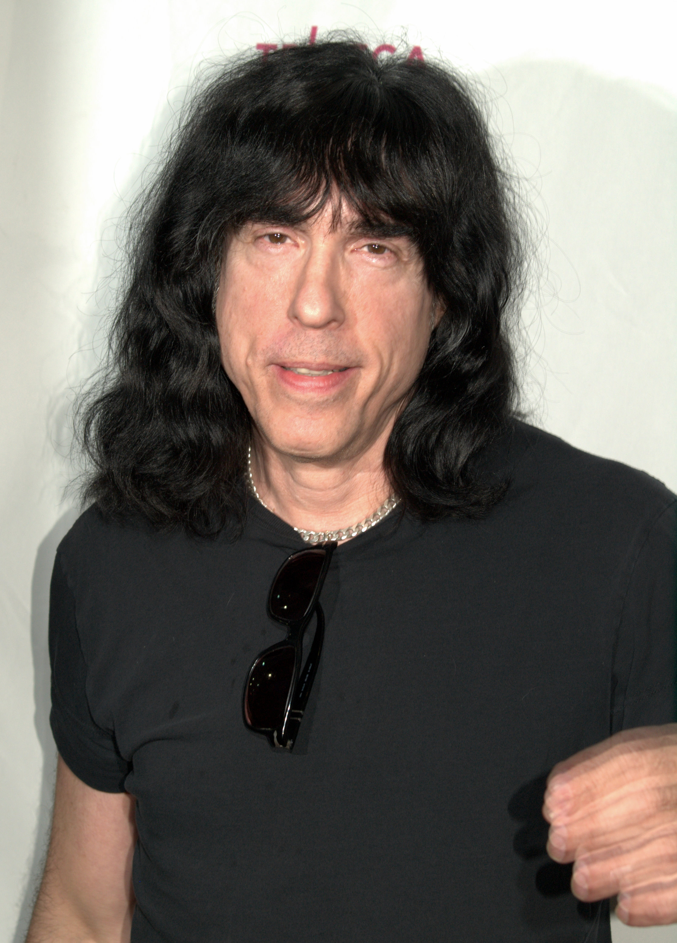 Marky Ramone at the 2009 Tribeca Film Festival for the premiere of Burning Down the House, a documentary about famous New York City rock and roll venue CBGB's.